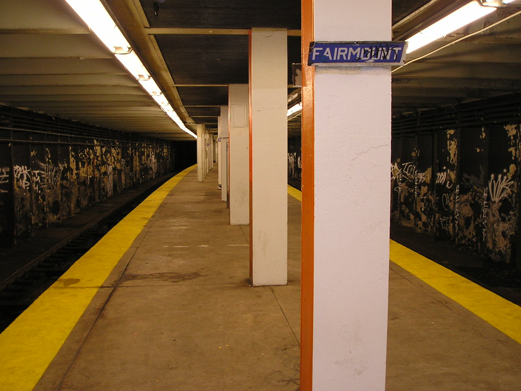 Fairmount subway stop on the Broad-Ridge Spur.